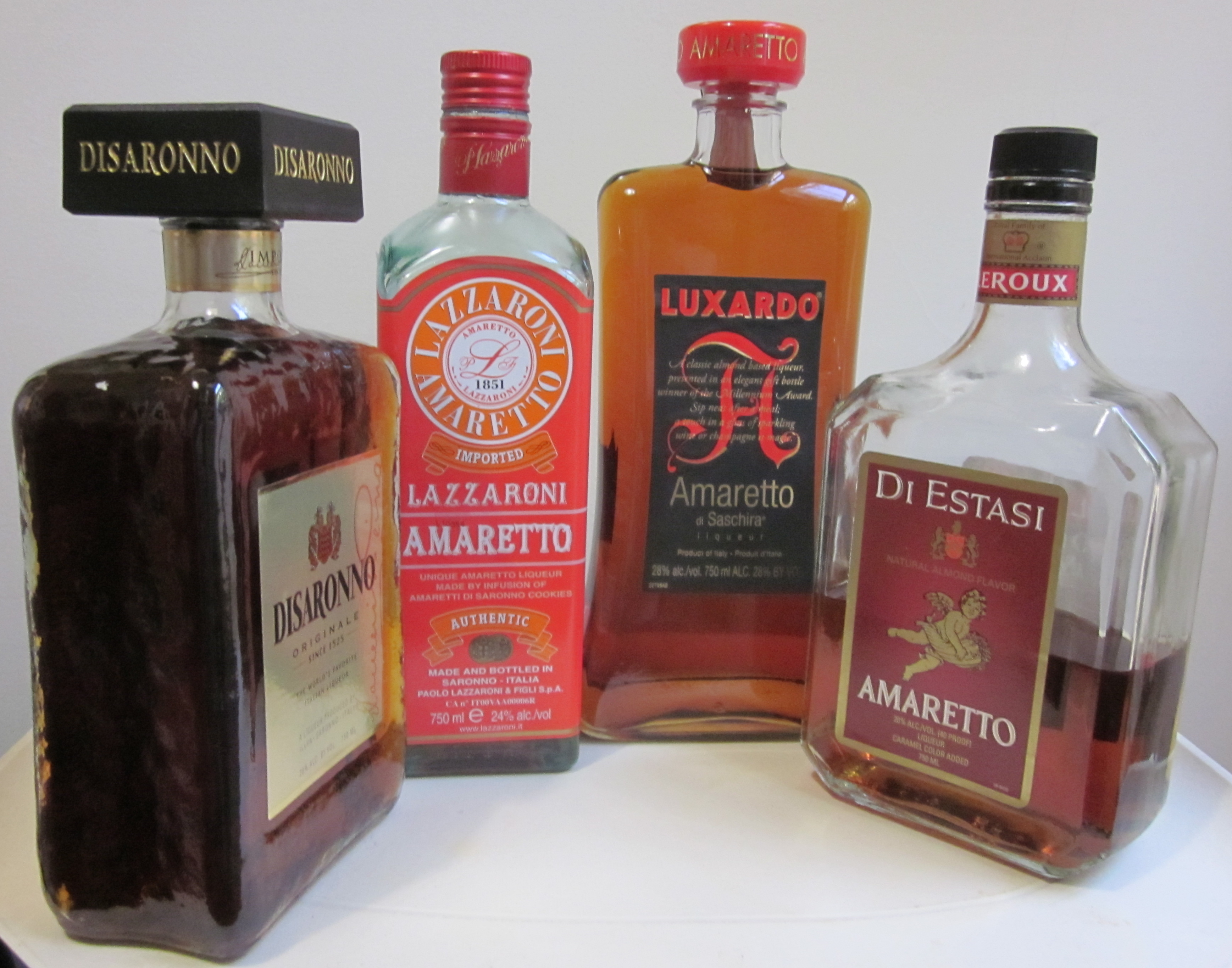 4 bottles of different brands of amaretto liqueur